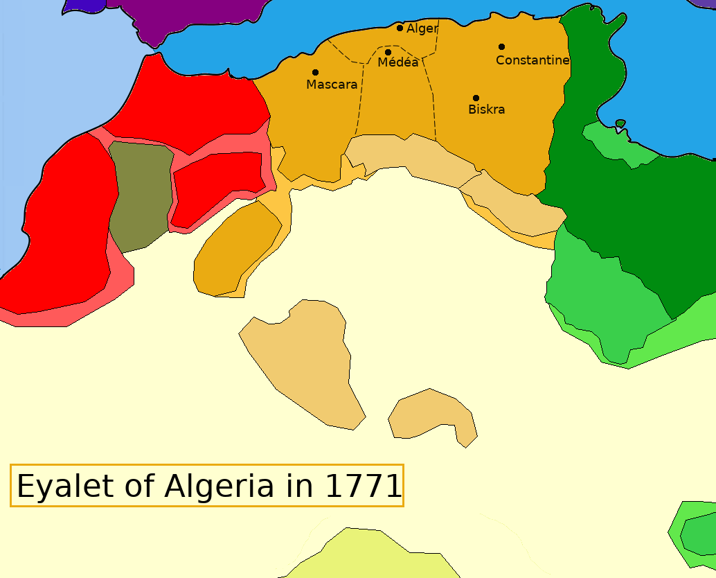 • En Orange Foncée: Elayet d’Algérie • En Orange: Région vassale ou sous influence de l’Elayet d’Algérie • En Orange Clair: États vassaux de l’Elayet d’Algérie • Cercle noir: Capitale des Beyliks • En Vert Foncée: Empire Ottoman • En Vert: États vassaux de l’Empire Ottoman • En Vert Clair: Région vassale ou sous influence de l’Empire Ottoman • En Marron: Bled Es-Siba • En Rouge: Royaume du Maroc • En Rouge Clair: Région vassale ou sous influence du Royaume du Maroc • En Jaune: Région majoritairement Tourages • En Jaune Clair: Régions majoritairement nomades ou tribales sahariens • Sources et Bibliographie : • Mahfoud Bennoune, The Making of Contemporary Algeria, 1830-1987, Cambridge University Press, 2002 • Charles Féraud, Histoire des sultans de Touggourt et du Sud Algérien, 2006, 162 • Histoire de l'Afrique septentrionale, Ernest MERCIER • Voyage dans la Régence d’Alger, Dr. Shaw • Carte des Régences d’Alger et de Tunis selon Dr. Shaw • Historical Atlas of Islamic Word, Malise Ruthven and Azim Nanji • African History in Maps, Michael_Kwamena-Poh, John_Tosh and Richard Waller • History of the World Map, Peter Snow • Atlas of Islamic, Peter Sluglett and Andrew Currie • Histoire de l'Afrique du Nord : Des origines à 1830, JULIEN, Charles-André • Philip's atlas of world history, Patrick O'Brien • Work of Kayra Atakan [Qirim Xan’i] and his video « Türk Tarihi---History of Turks » ( • Tachirifat de l’Eyalet et Fondation de la Régence d’Alger, traduction du livre «غزوات عروج وخير الدين » par Sander Rang et Ferdinand Denis • Les Collections de l’Histoire, n°45 et n°63 • Atlas de l’Afrique, Le Jaguar 2009; divers cartes du site • Atlas historique: L'histoire du monde, Duby George • Revue Africaine • Recherche sur l’Algérie à l’époque ottomane, Lemnouar Menouche • Gens et choses de Colomb-Béchar (Sud Oranais) par L. Céard • Wikipédia, Wikimédia common...et sites affiliée • L’Histoire et le site lhistoire.fr et la carte